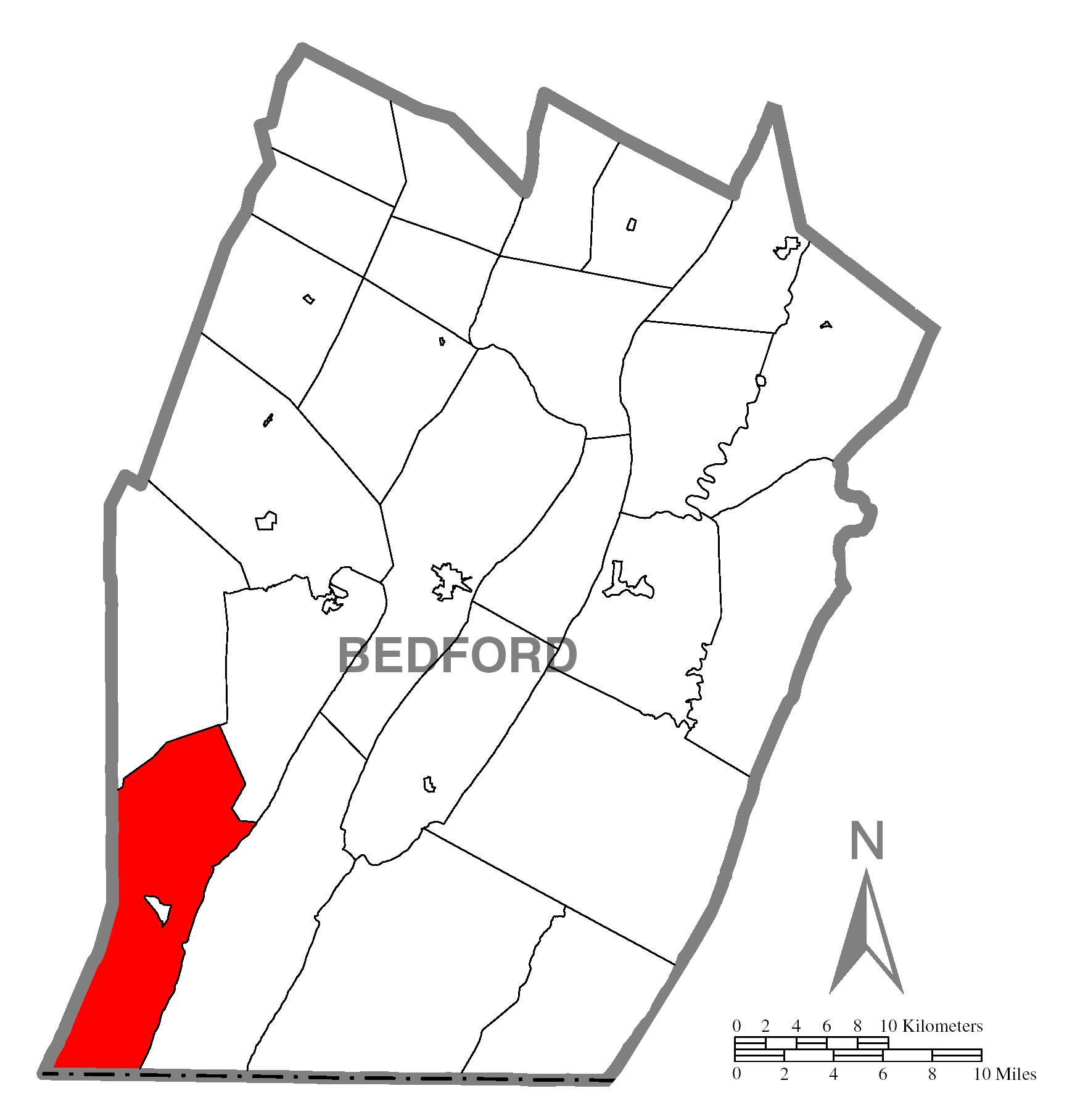 A map of Bedford County showing Londonderry Township, Pennsylvania (alternate) highlighted on the map.